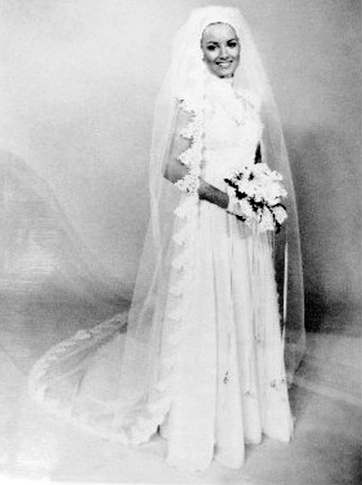 Photo of Kathryn Breech as Karen Wolek from the daytime drama One Life to Live.